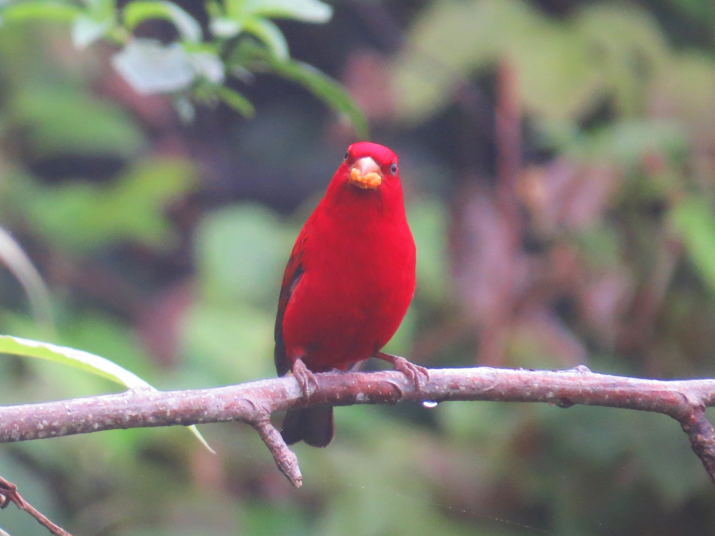 Male Scarlet Finch (Carpodacus sipahi) in Eaglenest Wildlife Sanctuary, Arunachal Pradesh, India.